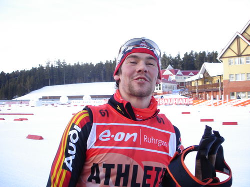 German biathlete Michael Rösch at the last 2006/2007 World Cup stage in Khanty-Mansysk